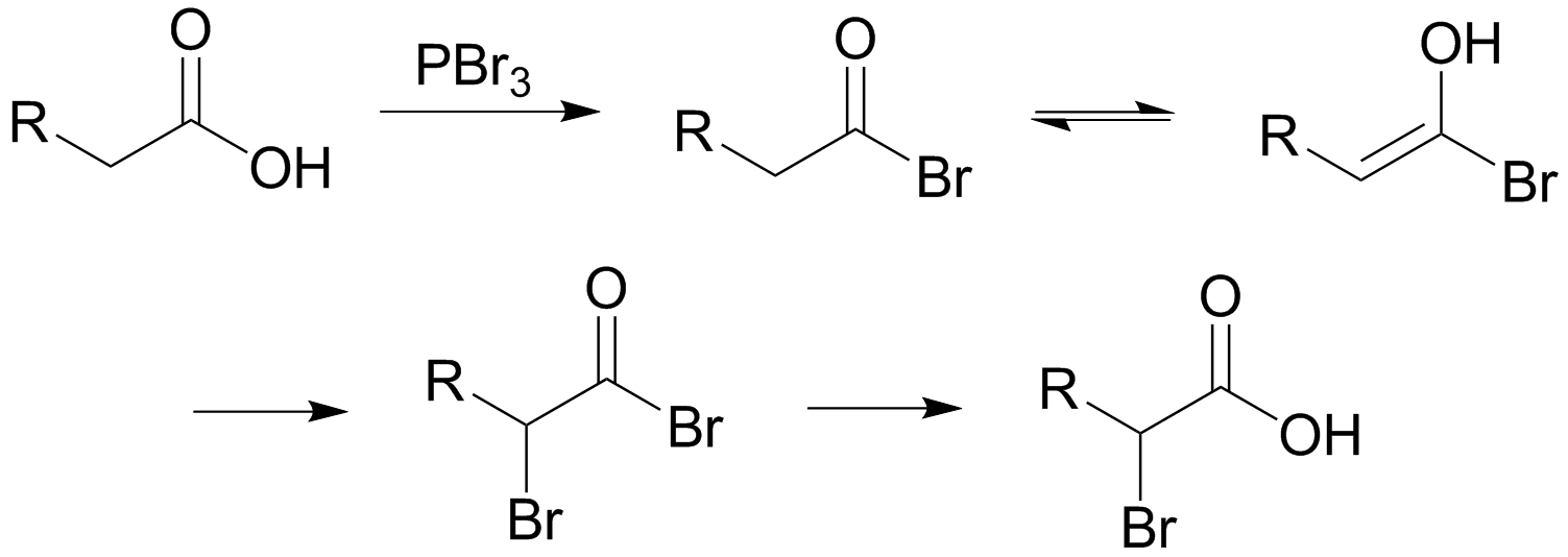 Hell-Volhard-Zelinsky reaction